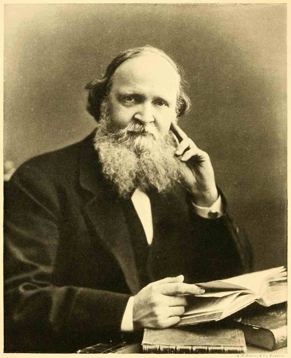 A picture of William Dwight Whitney, the American linguist.